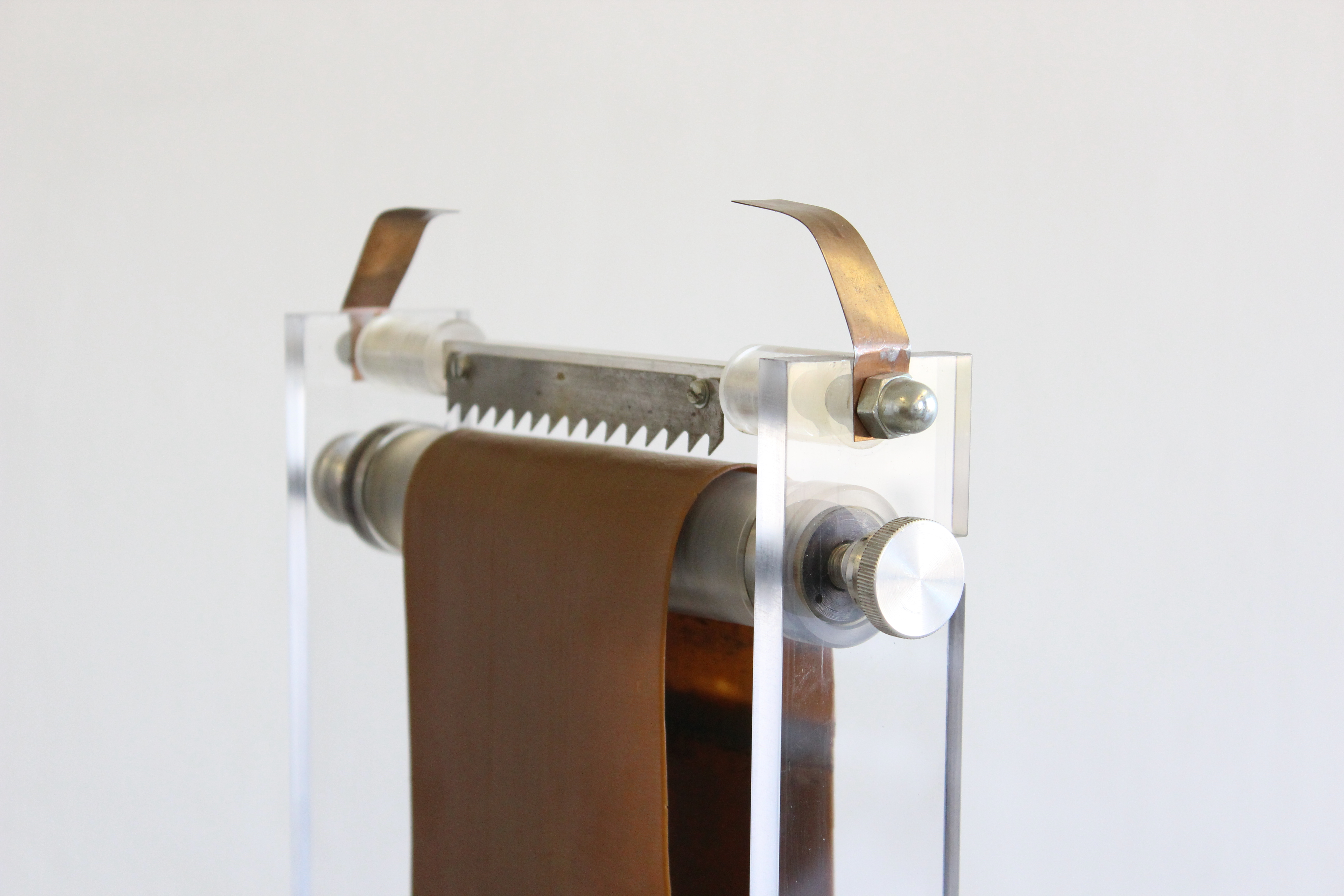 Van de Graaff generator for schools (detail)